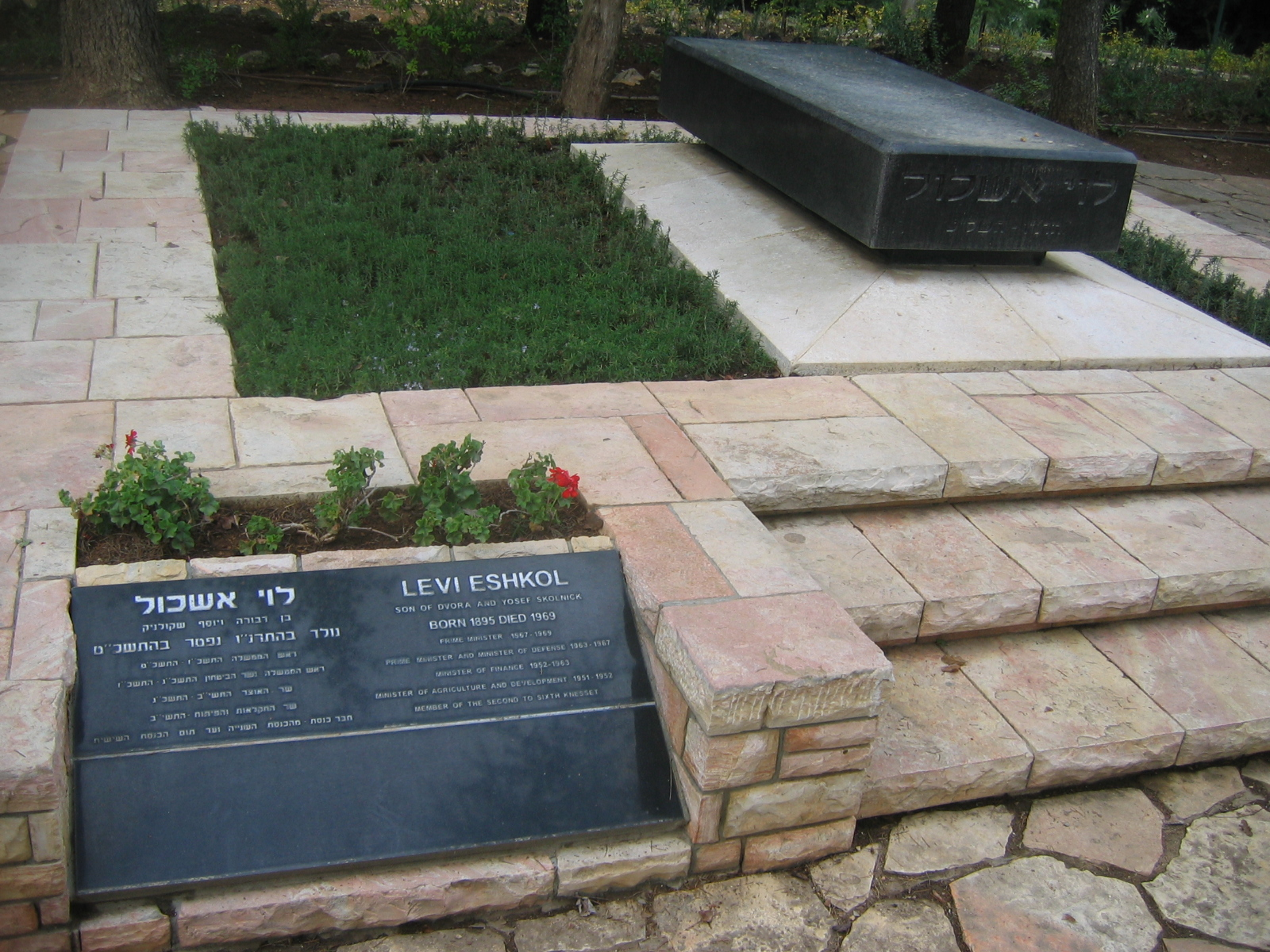 Grave of Levi Eshkol, prime-minister of Israel